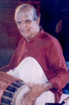 Musician, Umayalpuram Sivaraman during a concert at KOllam,Kerala